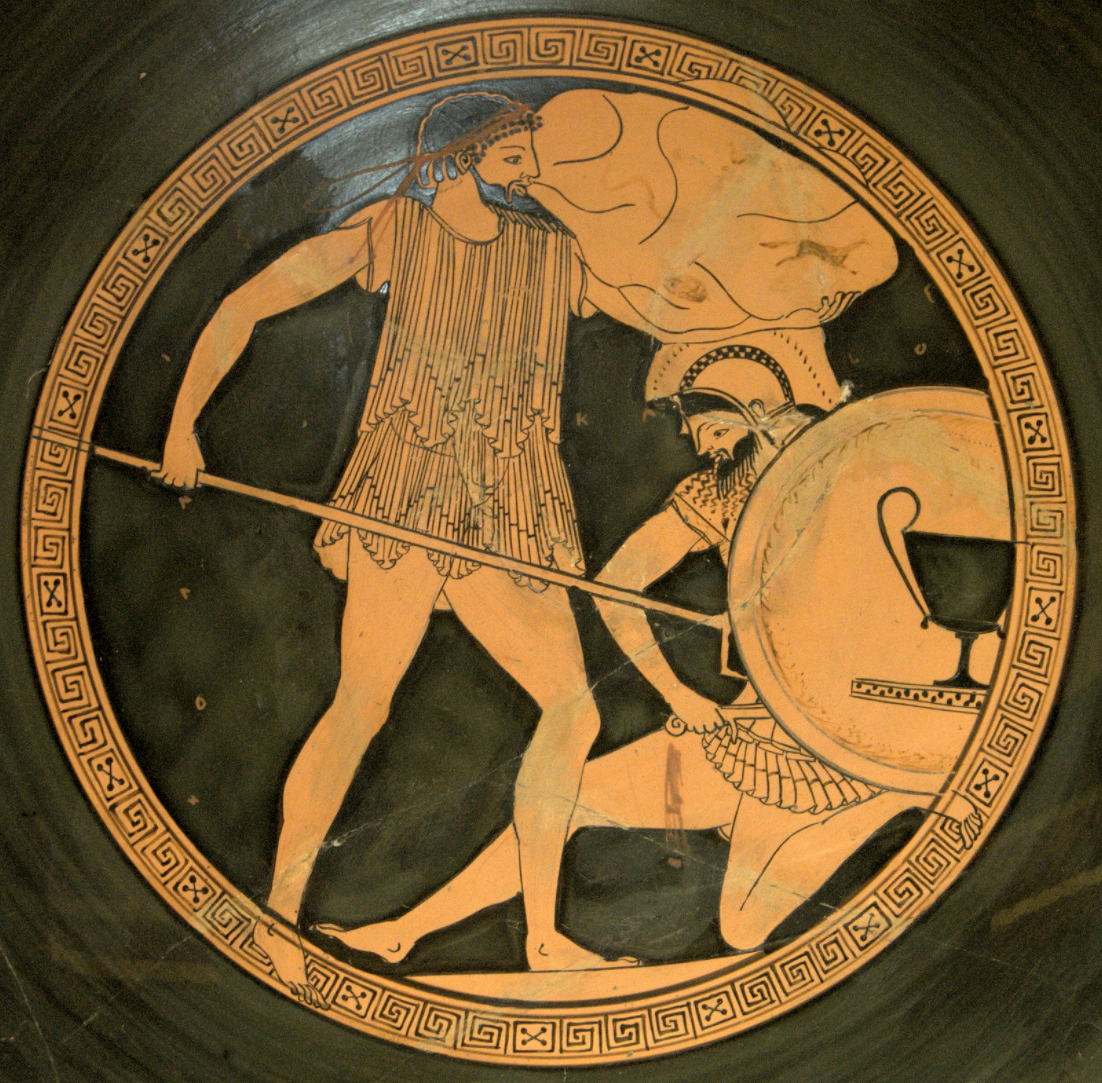 Gigantomachy scene: Poseidon fighting Polybotes. Tondo of an Attic red-figure kylix, ca. 475-470 BC. Found in Vulci, Etruria.